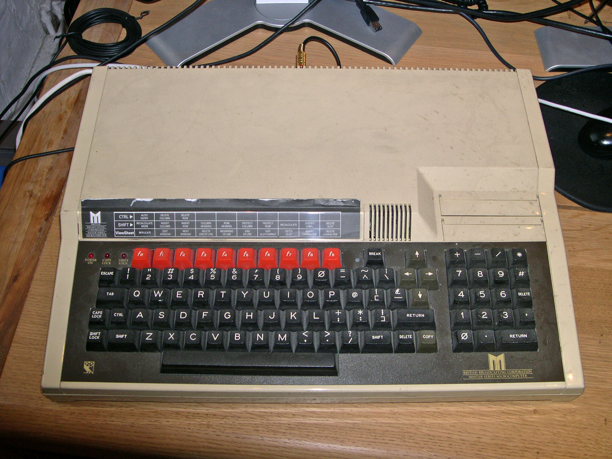 Acorn's BBC MasterAcorn front